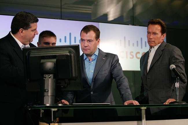 Visit to Cisco company. With Governor of California Arnold Schwarzenegger (right).